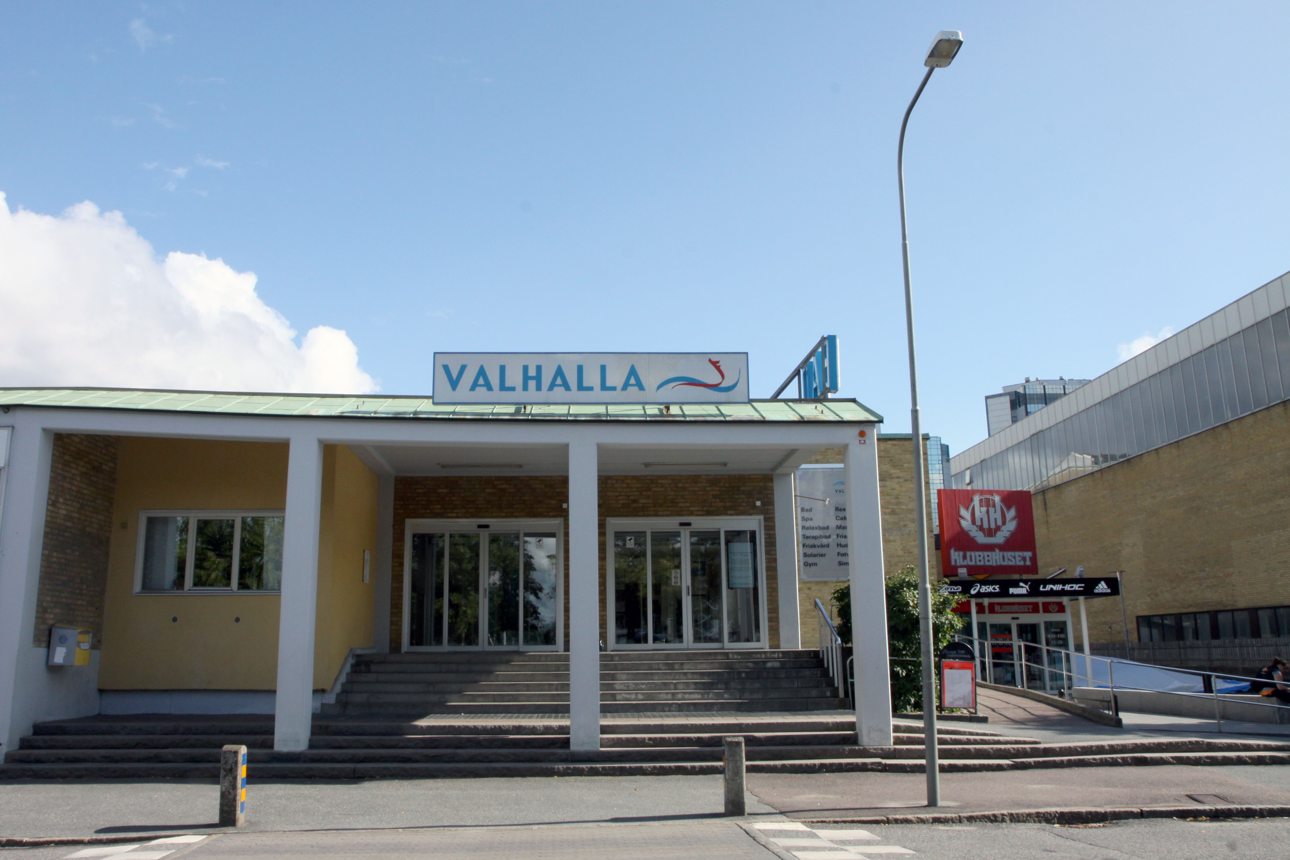 Valhallabadet, an indoor swimming facility in Gothenburg, Sweden